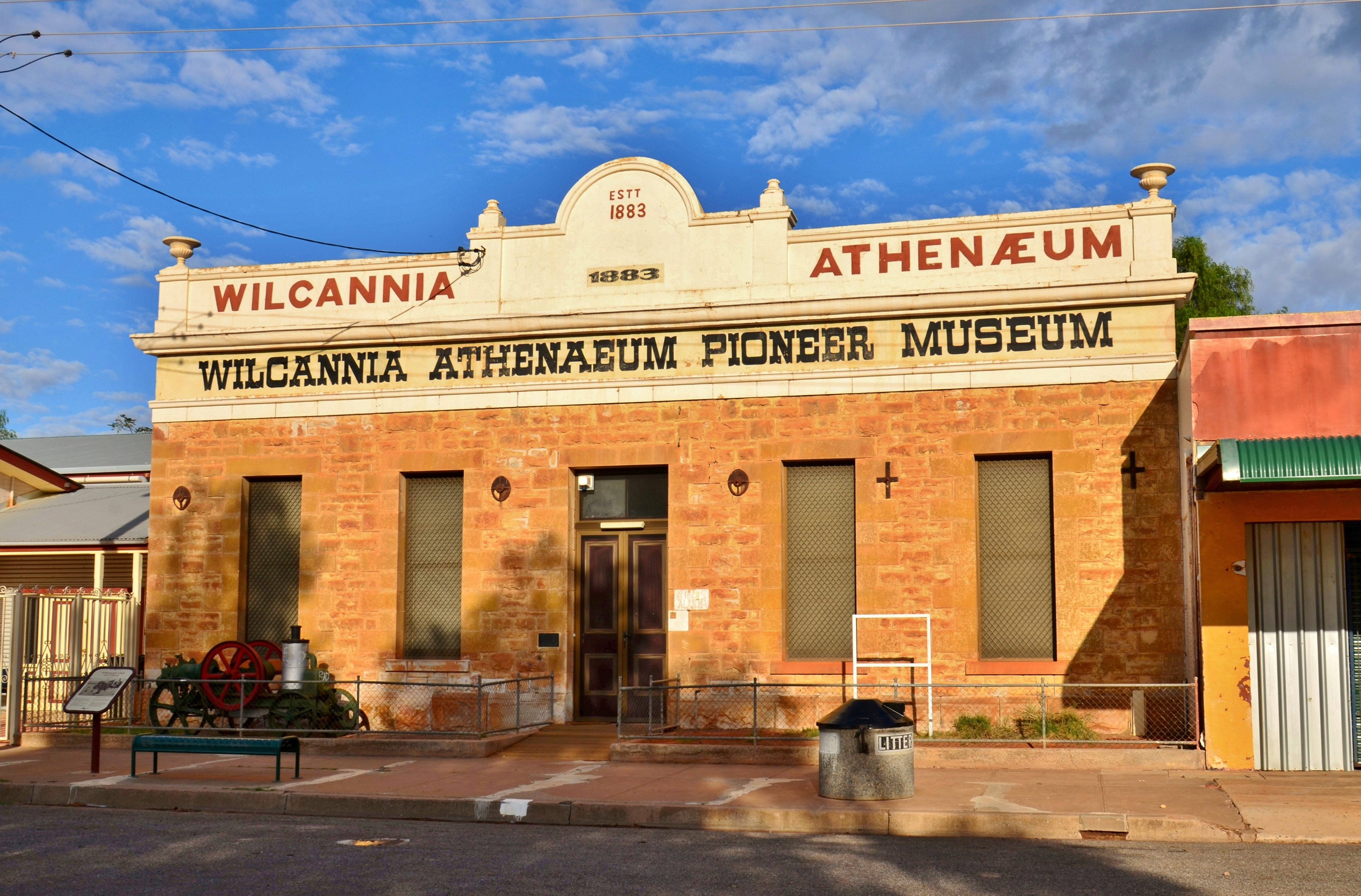 View of the former Wilcannia Athenaeum (now a museum), Reid Street, Wilcannia, New South Wales